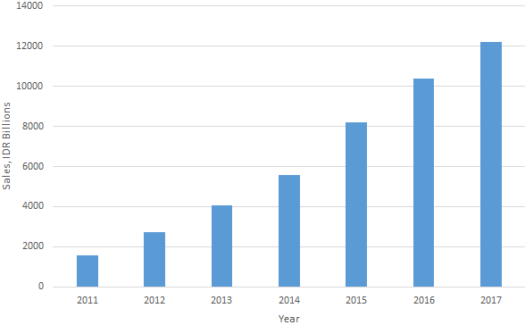 Video game sales in Indonesia between 2011 and 2016. Data from Euromonitor.[1] This diagram was created with Microsoft Excel.